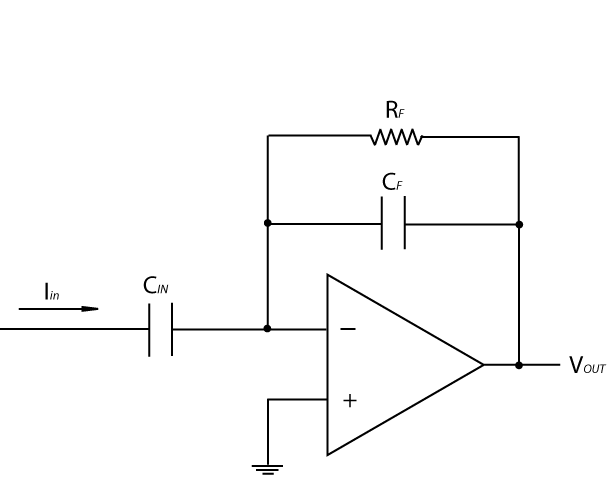 Charge-sensitive preamplifier with AC input coupling